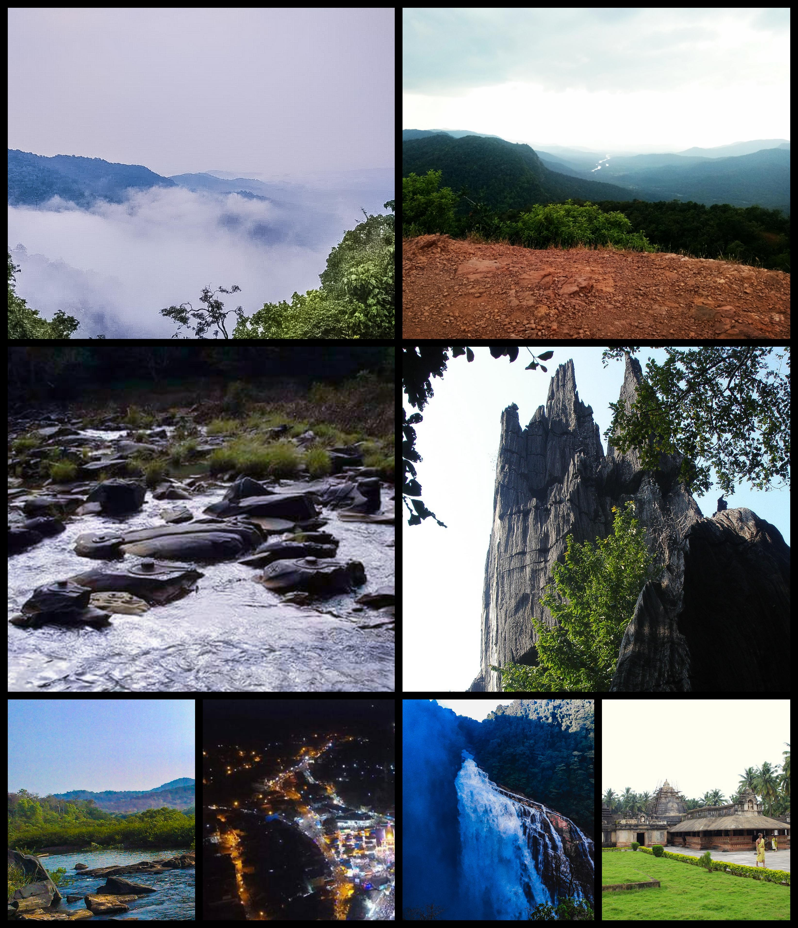 Clockwise from Top Right- Bheeman Gudda Peak, Yana Rock Mountain, Madhukeshwara Temple, Unchalli Falls, Marikamba Fair-Largest fair in Karnataka, Agnhashini river, Shasralinga, Devimane Ghat view point